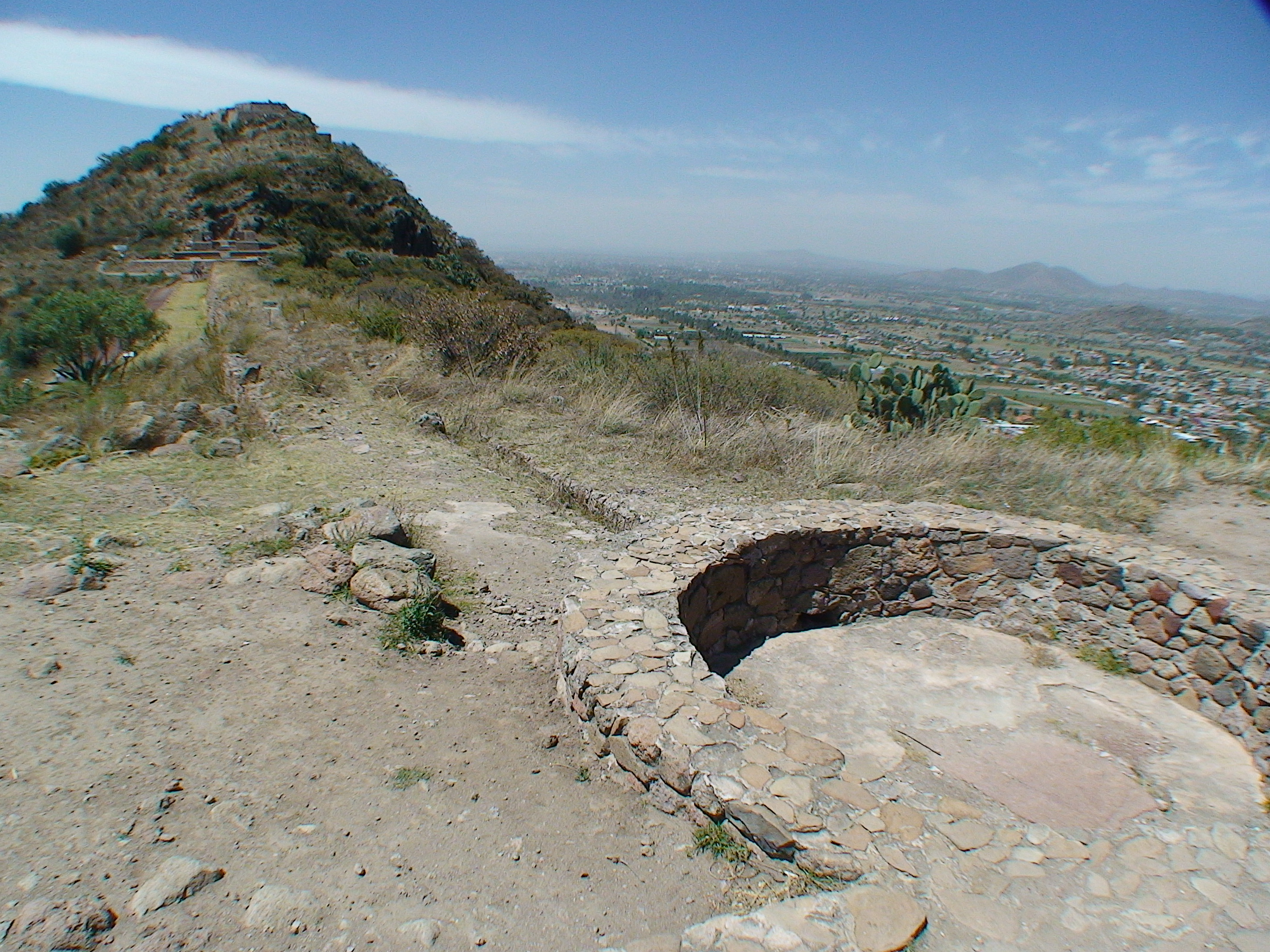 Tetzcotzingo, Edo. de México, Mexico